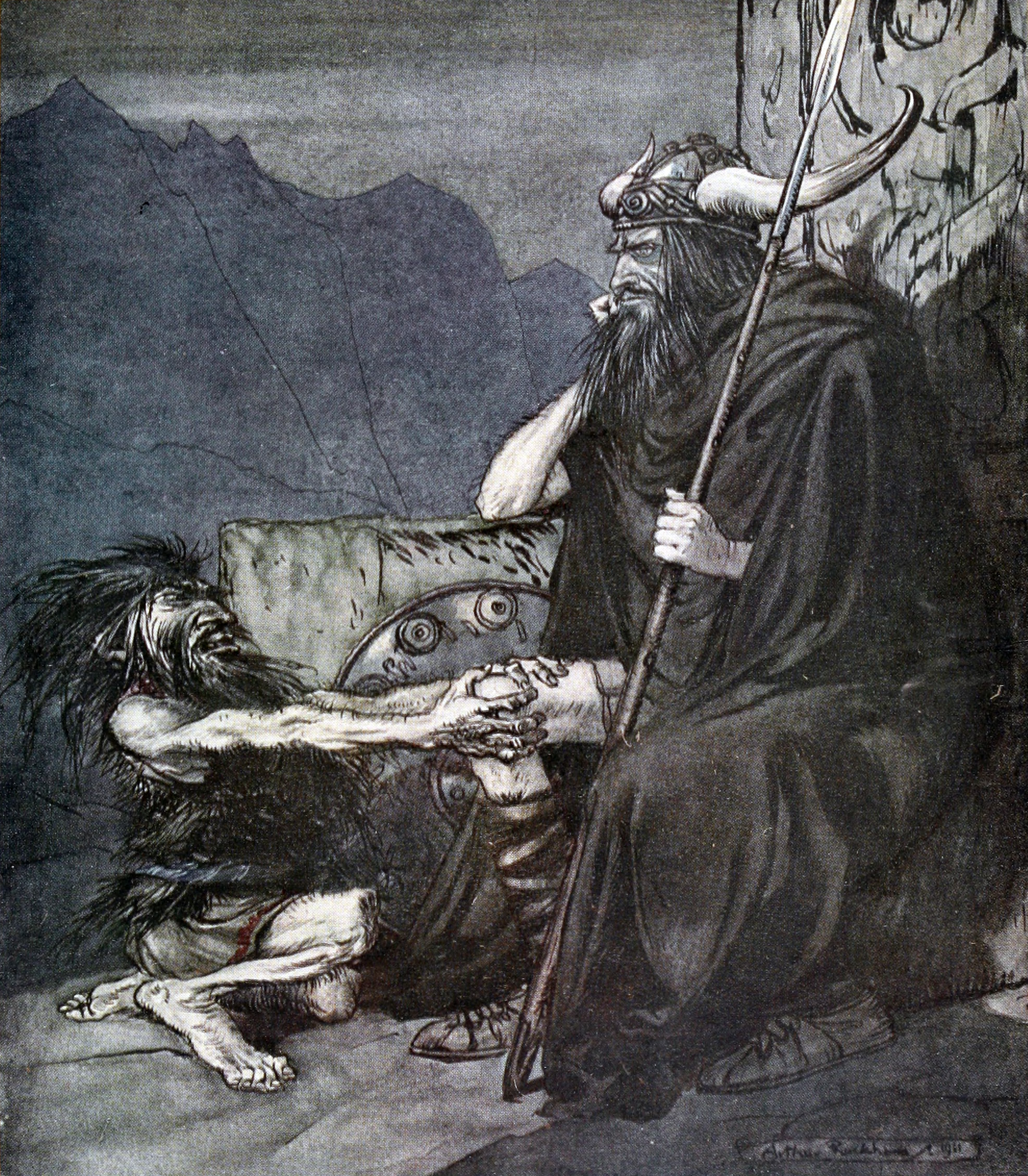 "Swear to me, Hagen, my son!"